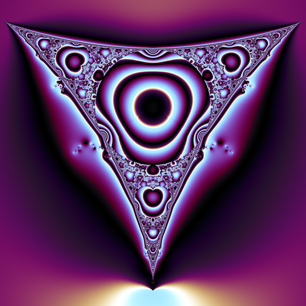 A Nova Fractal with the real part of the relaxation parameter set to 3.0, rendered using UltraFractal 4.02